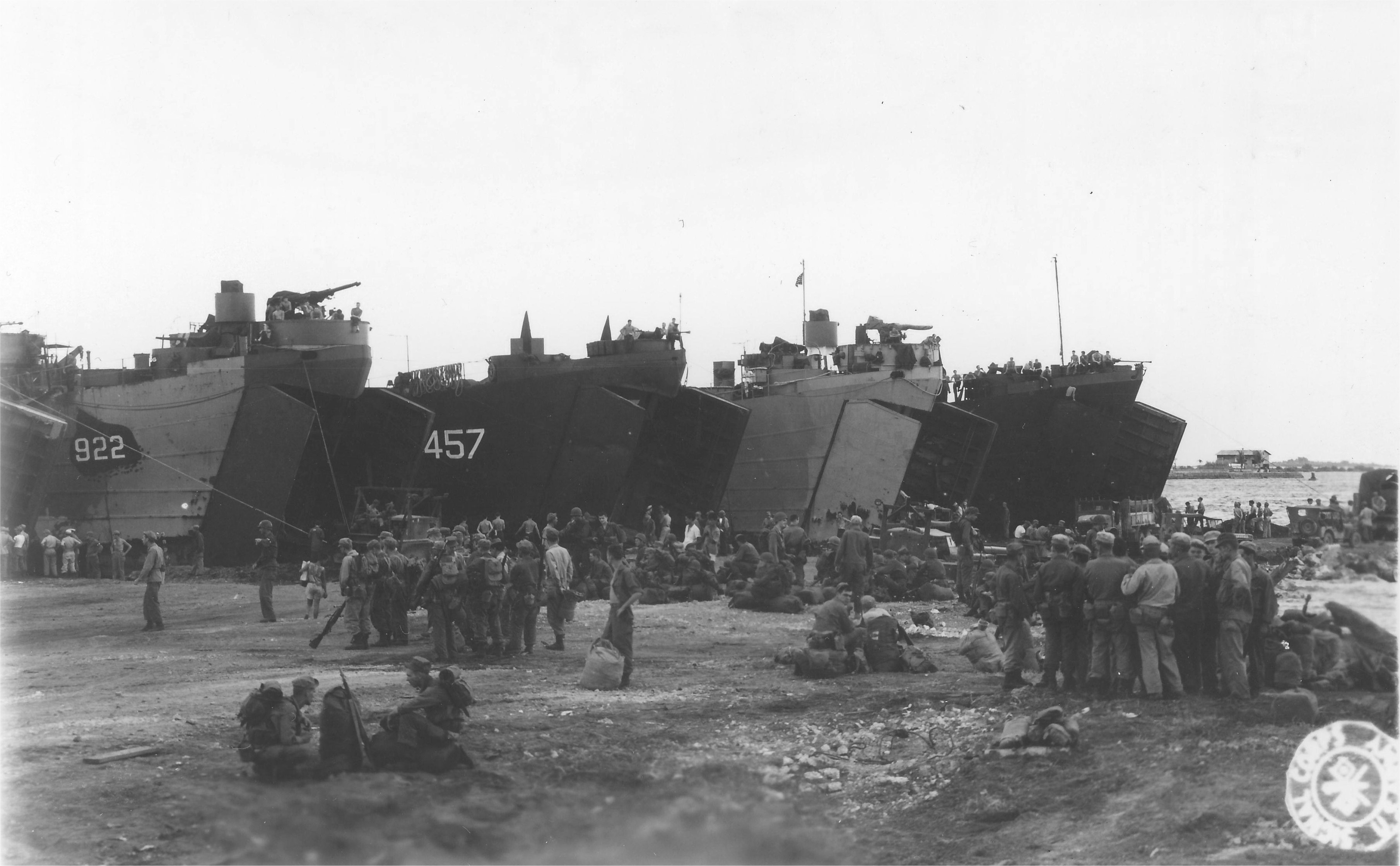 USS LST-457 and USS LST-922 along with several other LSTs unloading at a pier that was built in one day by Army Engineers at Cebu City, P.I., 3 April 1945. US Army Signal Corps photo # SC 205893, by T5 George Arend, now in the collections of the US National Archives.